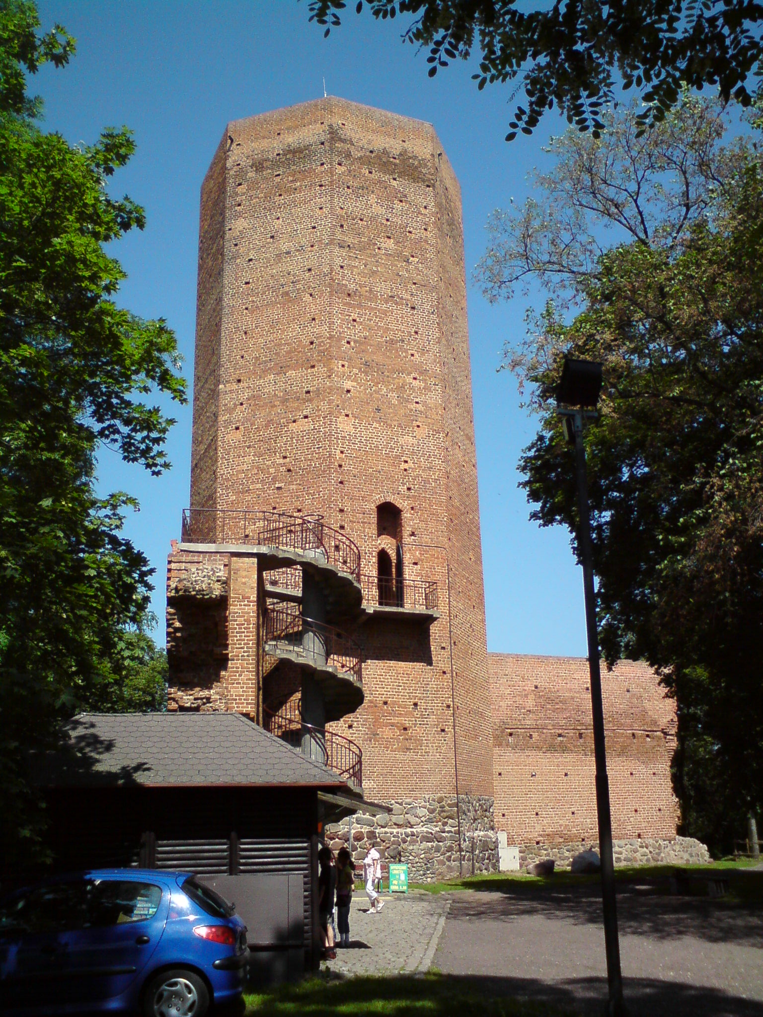 Mause Tower, Kruszwica